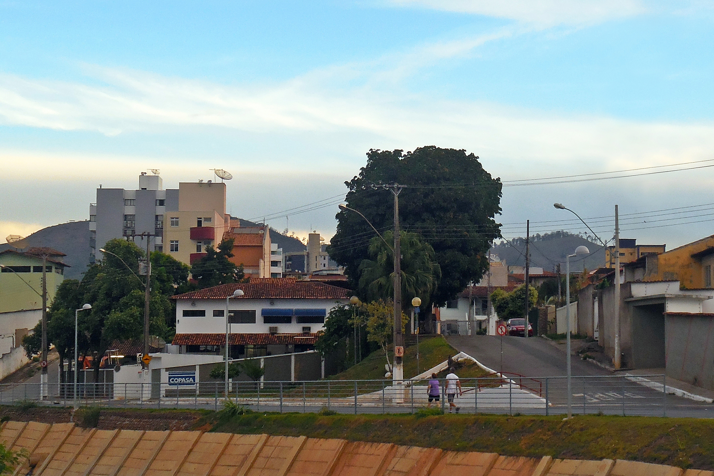 The Professores neighborhood seen from of the Julita Pires Bretas Avenue, in Coronel Fabriciano, Minas Gerais, Brazil.